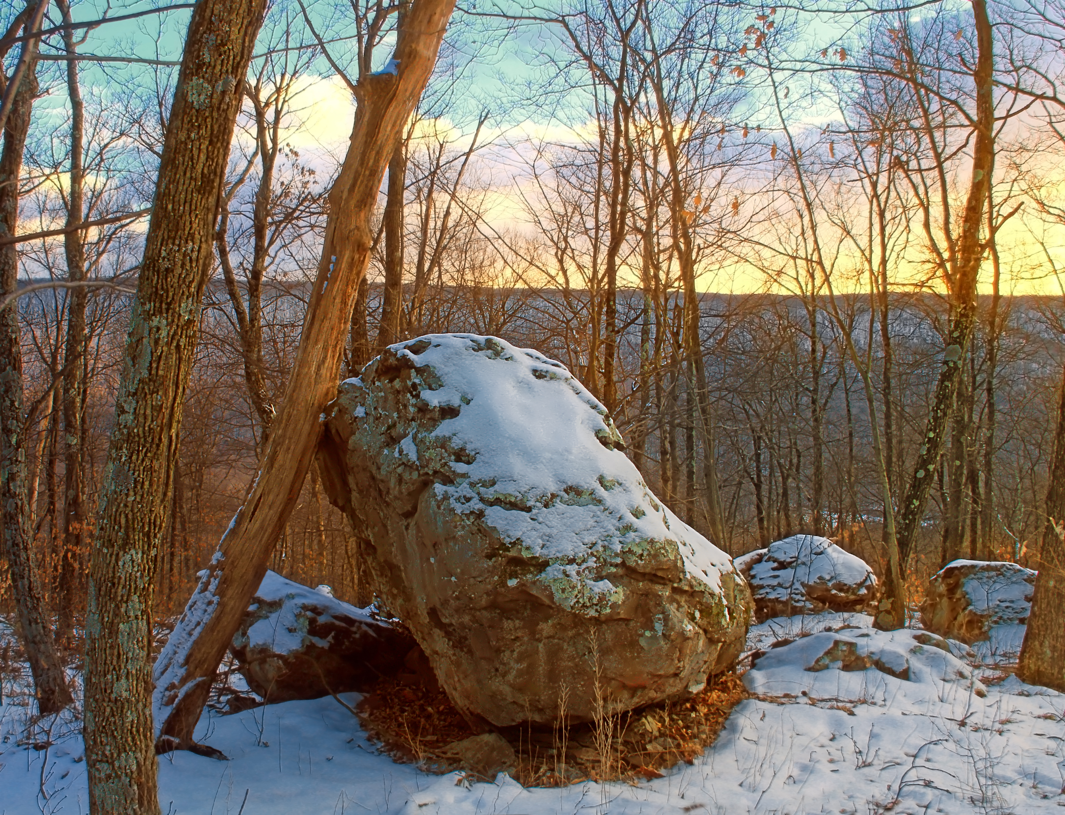 Glacial erratic at the summit of Mount Yeager, Luzerne County, within Nescopeck State Park. An unblazed, largely overgrown trail switchbacks up the mountain. (Topographic maps show the trail; the state park map does not.) The hike was disappointing; I had hoped to find a good vista at the summit, but all the views were obstructed by trees.